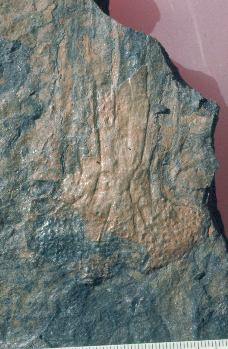 Corm and lower stem of Pleuromeia longicaulis, the stem of Cylostrobus sydneyensis from Early Triassic Newport Formation near Avalon, NSW, Australia